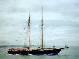 The Bluenose II leaving Rimouski harbour, Quebec, Canada.